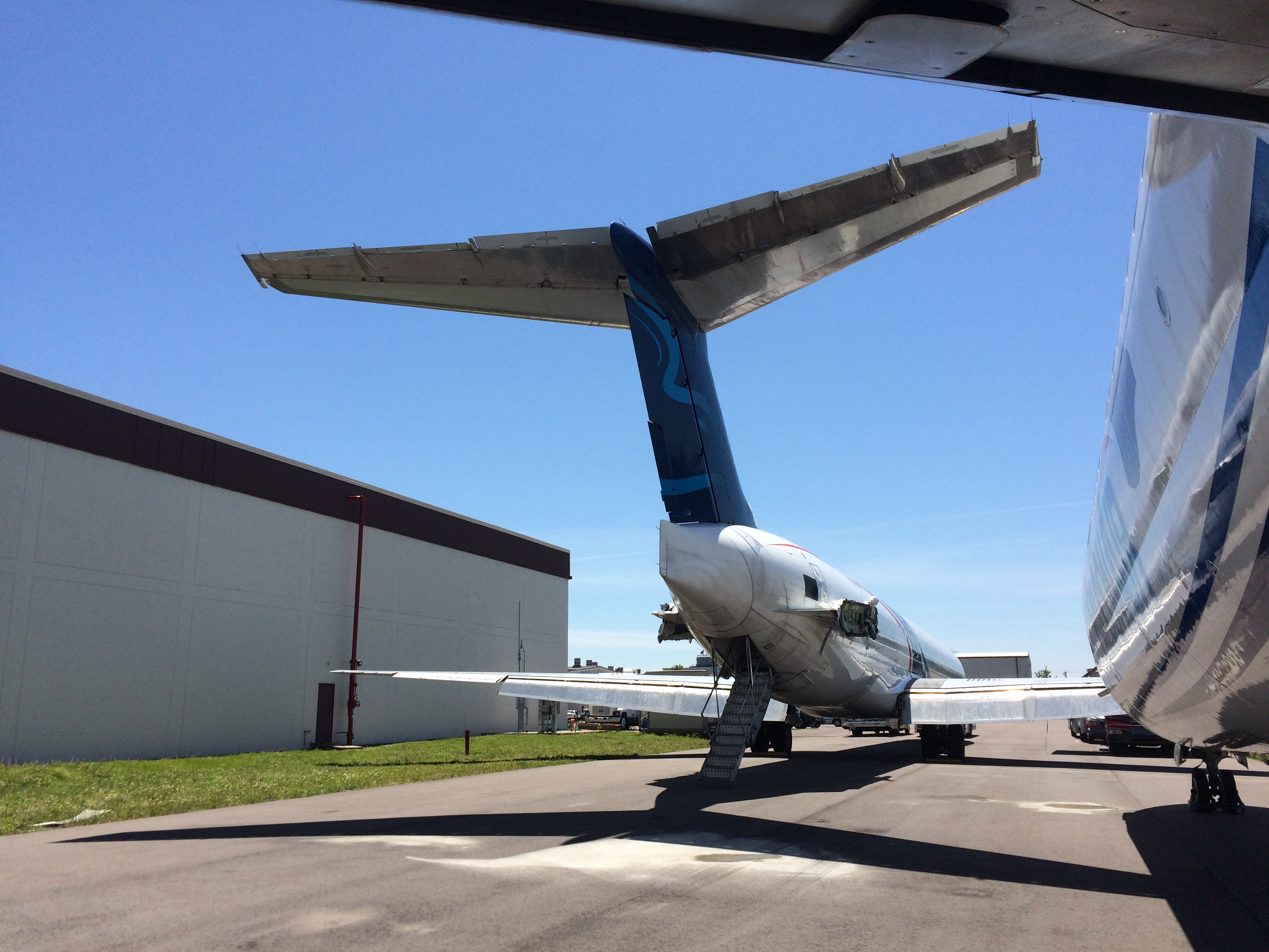 A tail shot of a Falcon Air Express MD-83 at the Lakeland Linder Regional Airport.